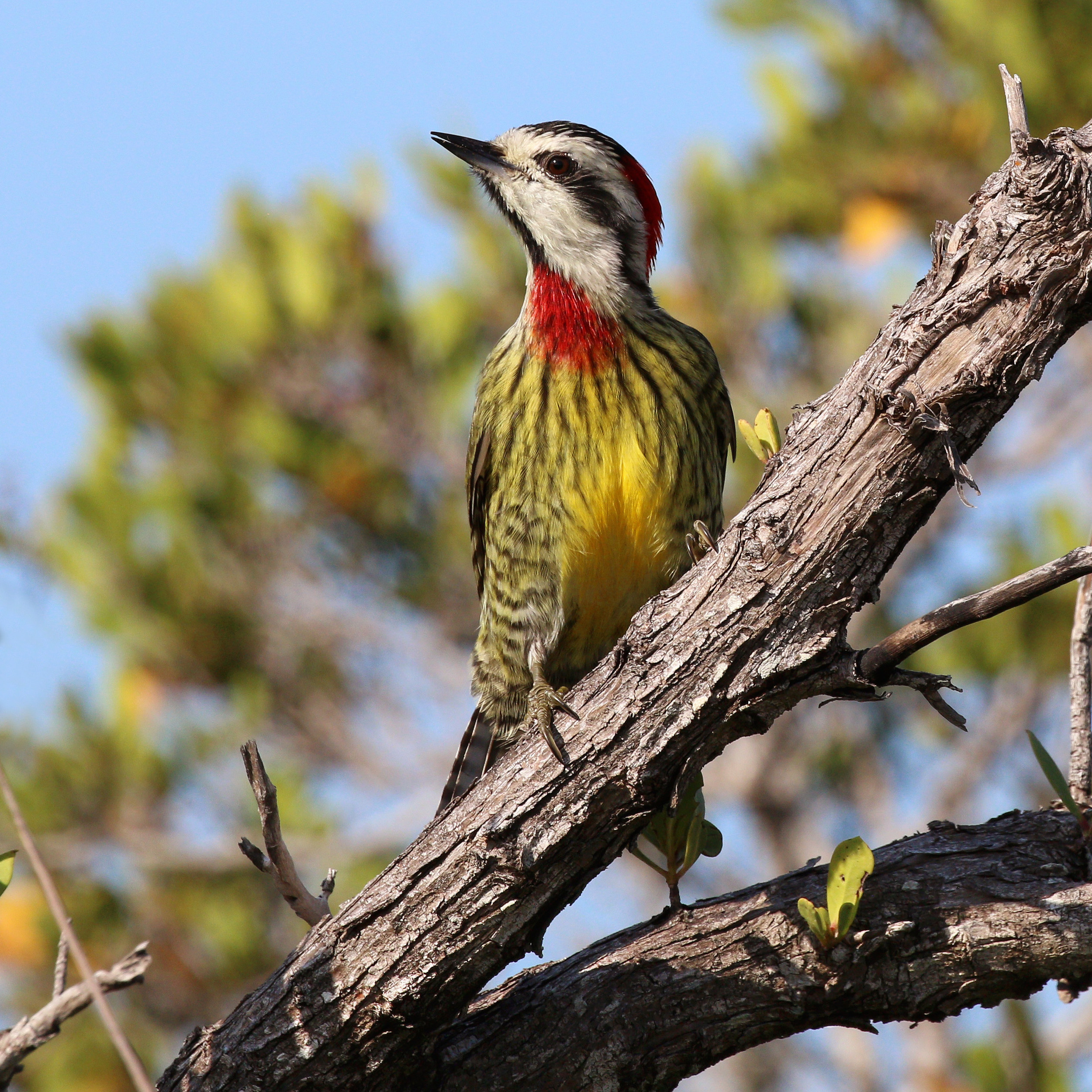 Cuban green woodpecker (Xiphidiopicus percussus percussus) female, Cayo Romano, Cuba